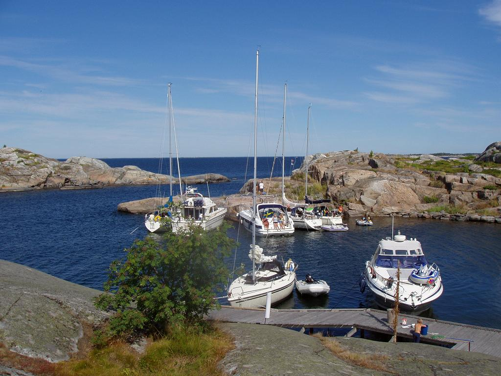 Photographer: Fredrik Description: Lilla Nassa, a small group of islands in the outer parts of Stockholm archipelago. Closest large island is Möja. Harbour at the island "Sprickopp".